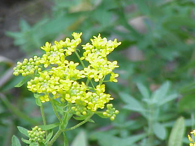 Species: Alyssum murale Family: Brassicaceae Image No. 2